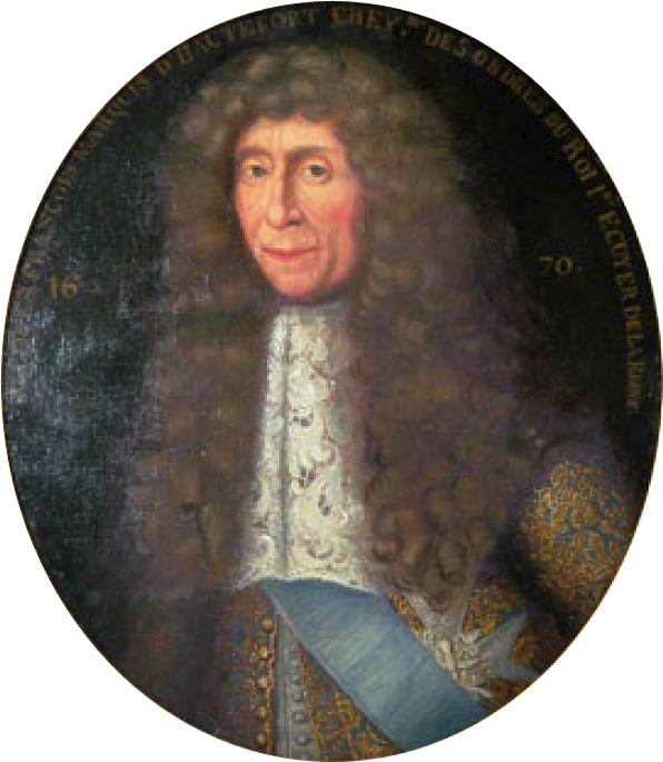 Portrait of Jacques François de Hautefort (1609-1680)